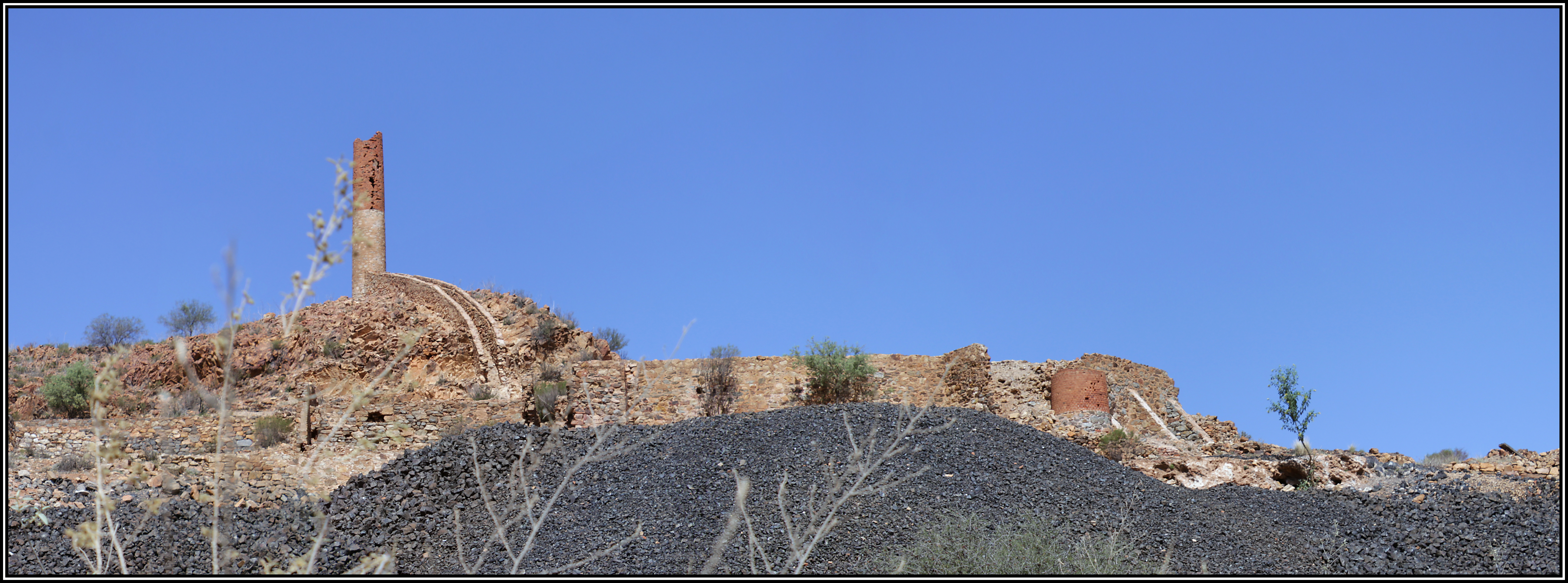 The ruins of the Day Dream Mine smelter, Sept 2013, on a clear blue day. Peter Neaum.